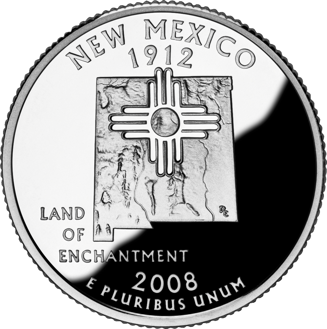 Removed background, cropped, and converted to PNG with Microsoft Photo Editor. This image depicts a unit of currency issued by the United States of America. If Fraudulent use of this image is punishable under applicable counterfeiting laws. As listed by the United States Secret Service at money illustrations, the Counterfeit Detection Act of 1992, Public Law 102-550, in Section 411 of Title 31 of the Code of Federal Regulations (31 CFR 411), permits color illustrations of U.S. currency provided:1. The illustration is of a size less than three-fourths or more than one and one-half, in linear dimension, of each part of the item illustrated;2. The illustration is one-sided; and3. All negatives, plates, positives, digitized storage medium, graphic files, magnetic medium, optical storage devices, and any other thing used in the making of the illustration that contain an image of the illustration or any part thereof are destroyed and/or deleted or erased after their final use. Certain coins contain copyrights licensed to the U.S. Mint and owned by third parties or assigned to and owned by the U.S. Mint [1]. For the United States Mint circulating coin design use policy, see [2]; for the policy on the 50 State Quarters, see [3]. Also: COM:ART #Photograph of an old coin found on the Internet